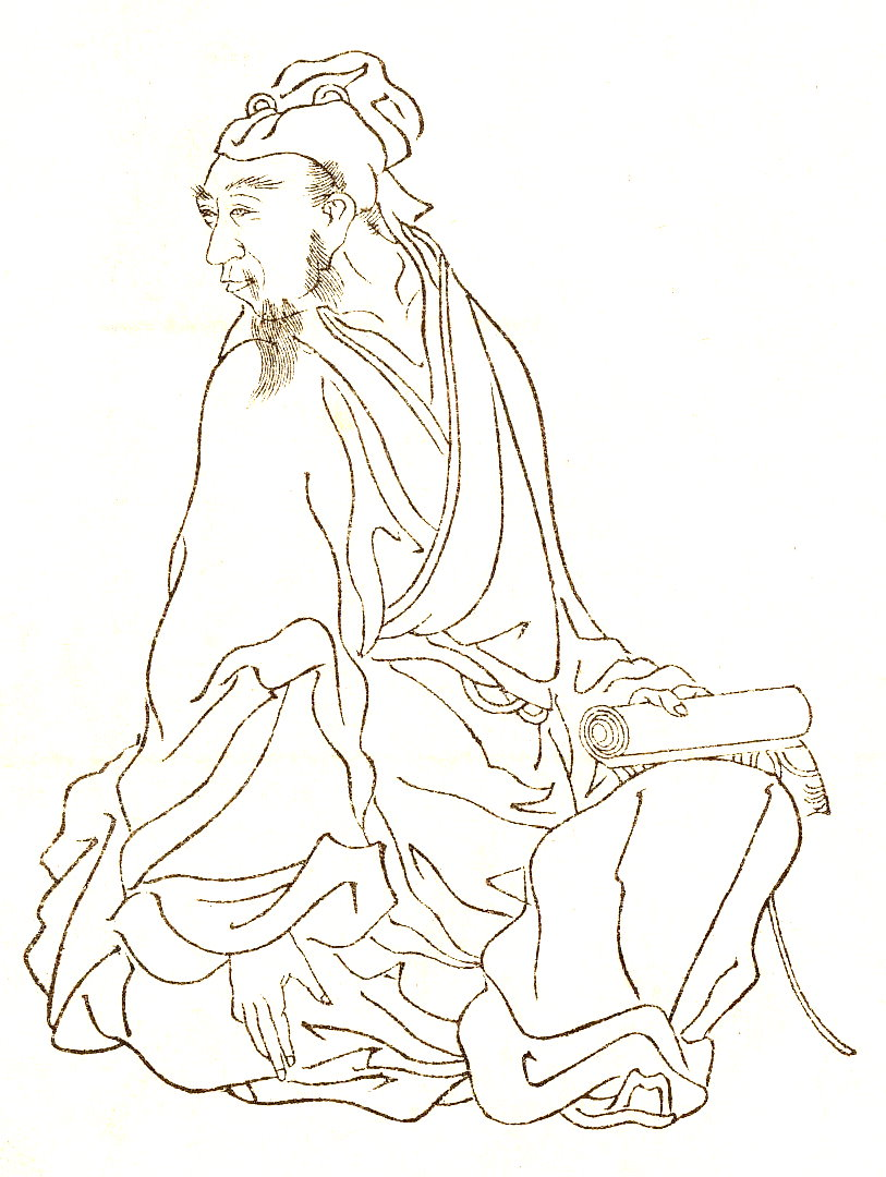 Fujiwara no Kiyokawa(藤原清河) was a scholar, administrator, and waka poet in the Nara period.